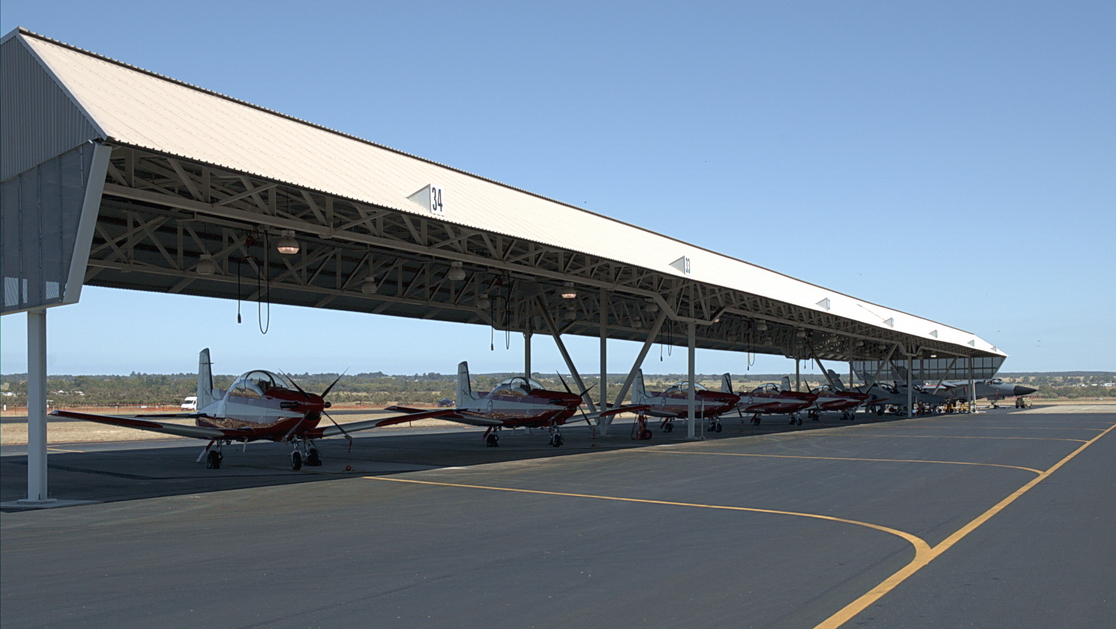 Lineup of Pilatus PC-9 aircraft from RAAF No. 2 Flying Training School at RAAF Base Pearce.